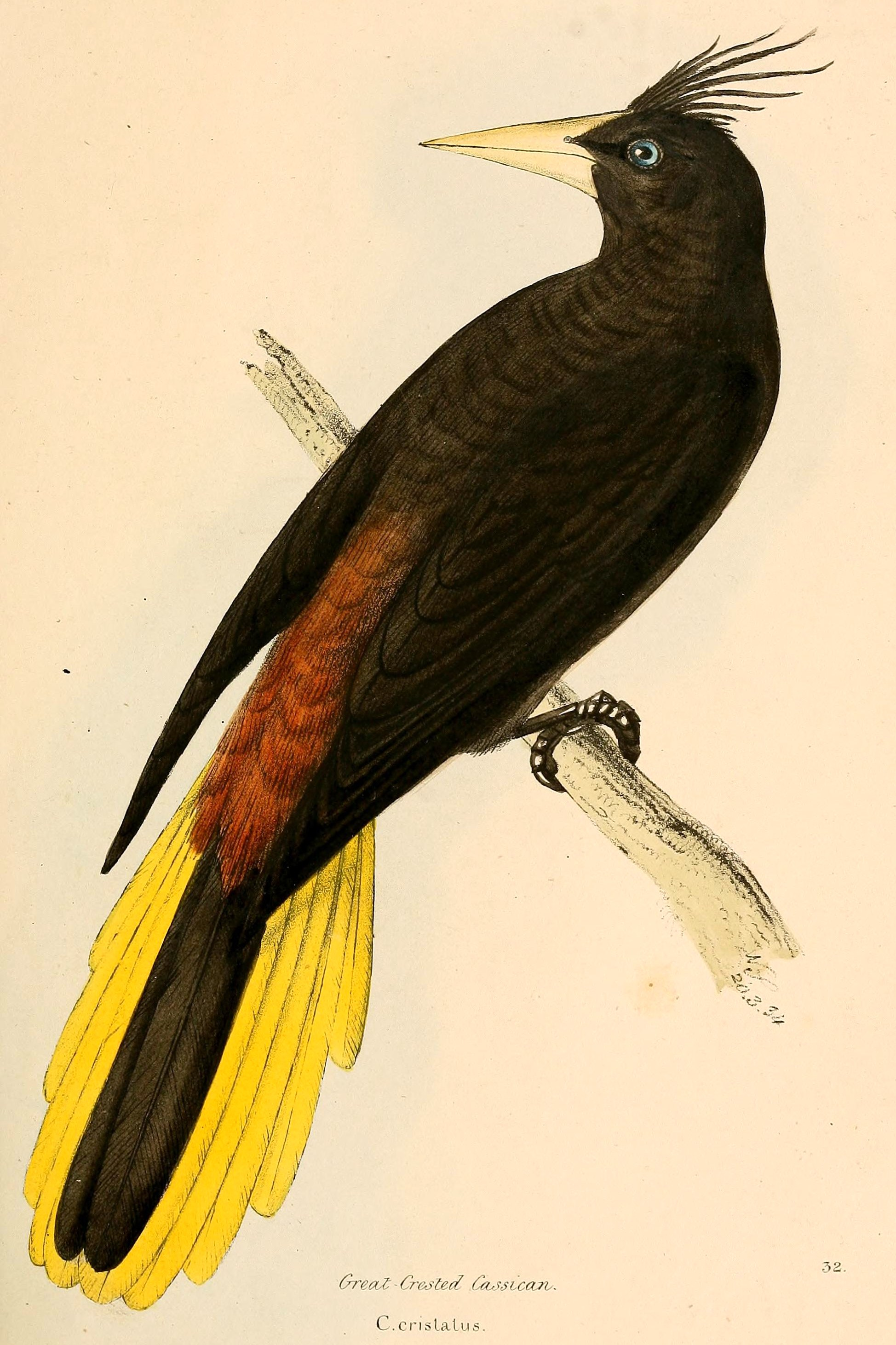 Cassicus cristatus = Psarocolius decumanus (Crested Oropendola)